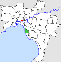 Location of the City of Brighton within Melbourne.